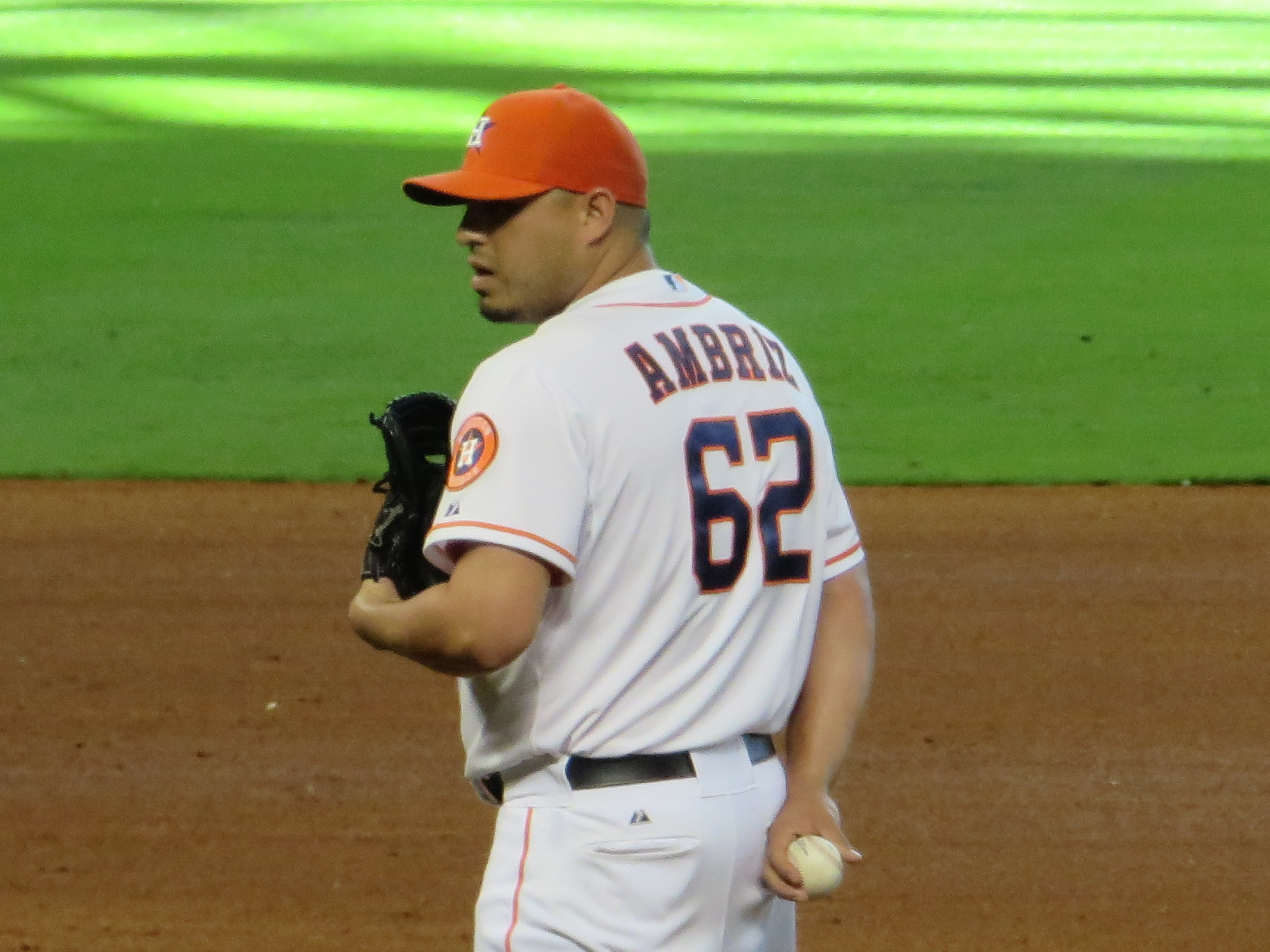 Houston Astros pitcher Héctor Ambriz, Minute Maid Park, June 29, 2013.